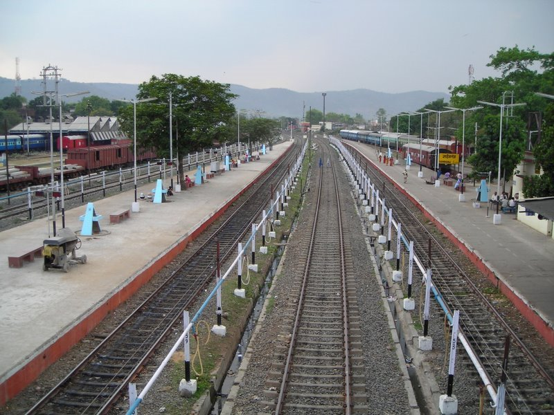 Beautiful view from the sahibganj railway station FOB